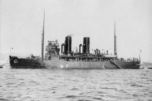 Japanese ice breaker ODOMARI at Kobe port, completed at Kawasaki Shipyard in Nov. 7, 1921.